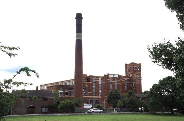 Ena Mill, Atherton Mill being restored with scaffolding alongside the engine house. The chimney is still to receive its name in large white letters but is mighty fine with an oversailing cap. The engine house was obviously for a horizontal engine, presumably with rope drive. It's a gorgeous example but I've seen little about it in print. The silver Cougar was my wheels at the time.